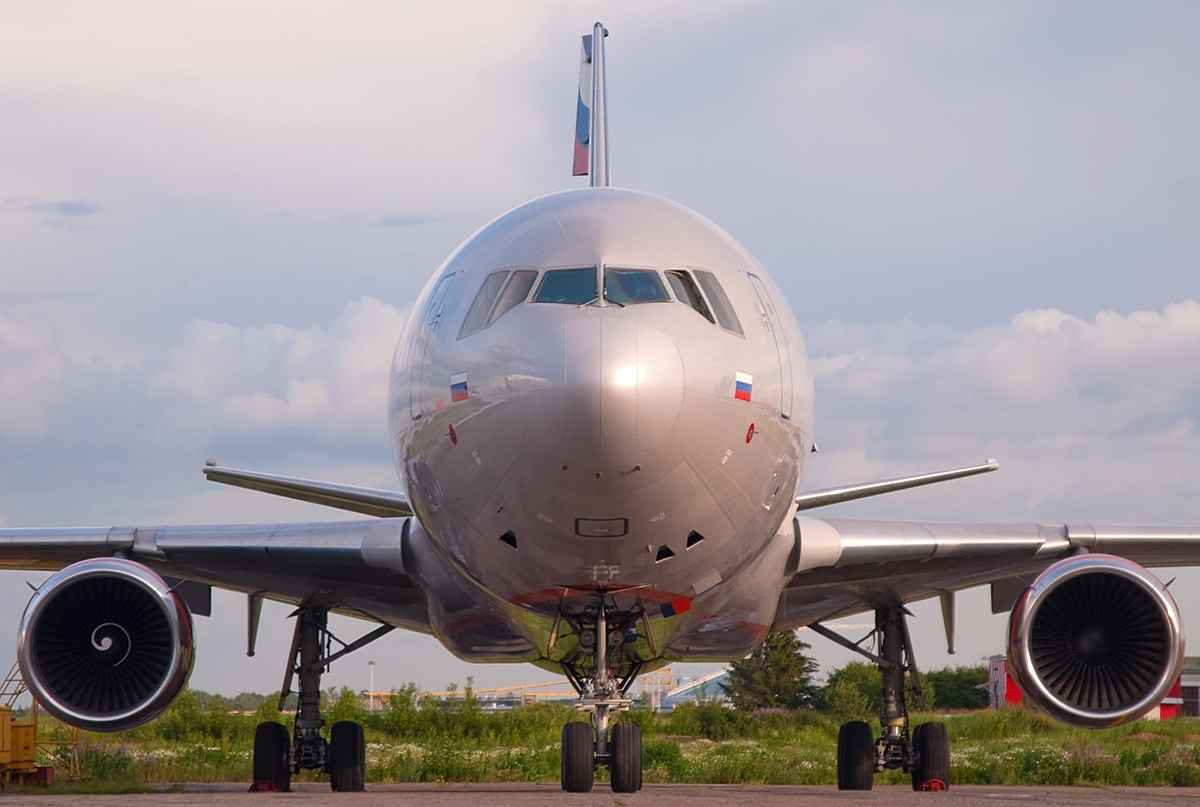 "Aeroflot Cargo"MD-11F VP-BDQ